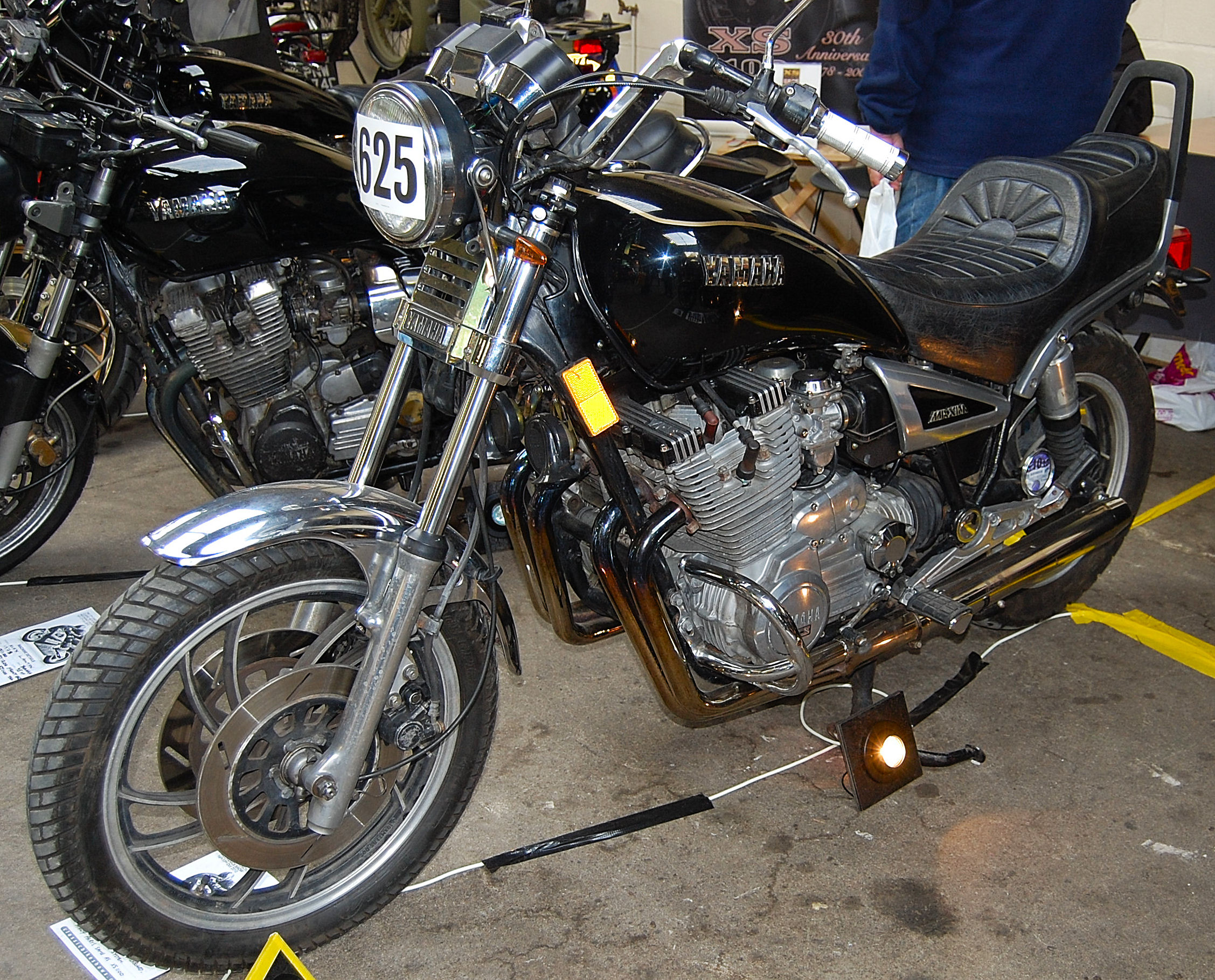 The Yamaha XJ750 is a motorcycle by the Yamaha Motor Company introduced in 1982 and produced through 1985. It has a 750 cubic centimeter 4 stroke, 4 cylinder, air cooled, naturally aspirated dual overhead cam engine with a bore of 65mm per cylinder and stroke of 56.4mm. It makes 82hp at 9000rpm. The bike is significant as a precursor to modern sportsbikes and for its high power to displacement ratio at the time for an air cooled motorcycle engine.